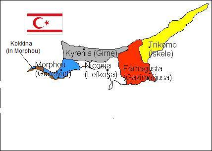 Northern Cyprus Map with administrative divisions